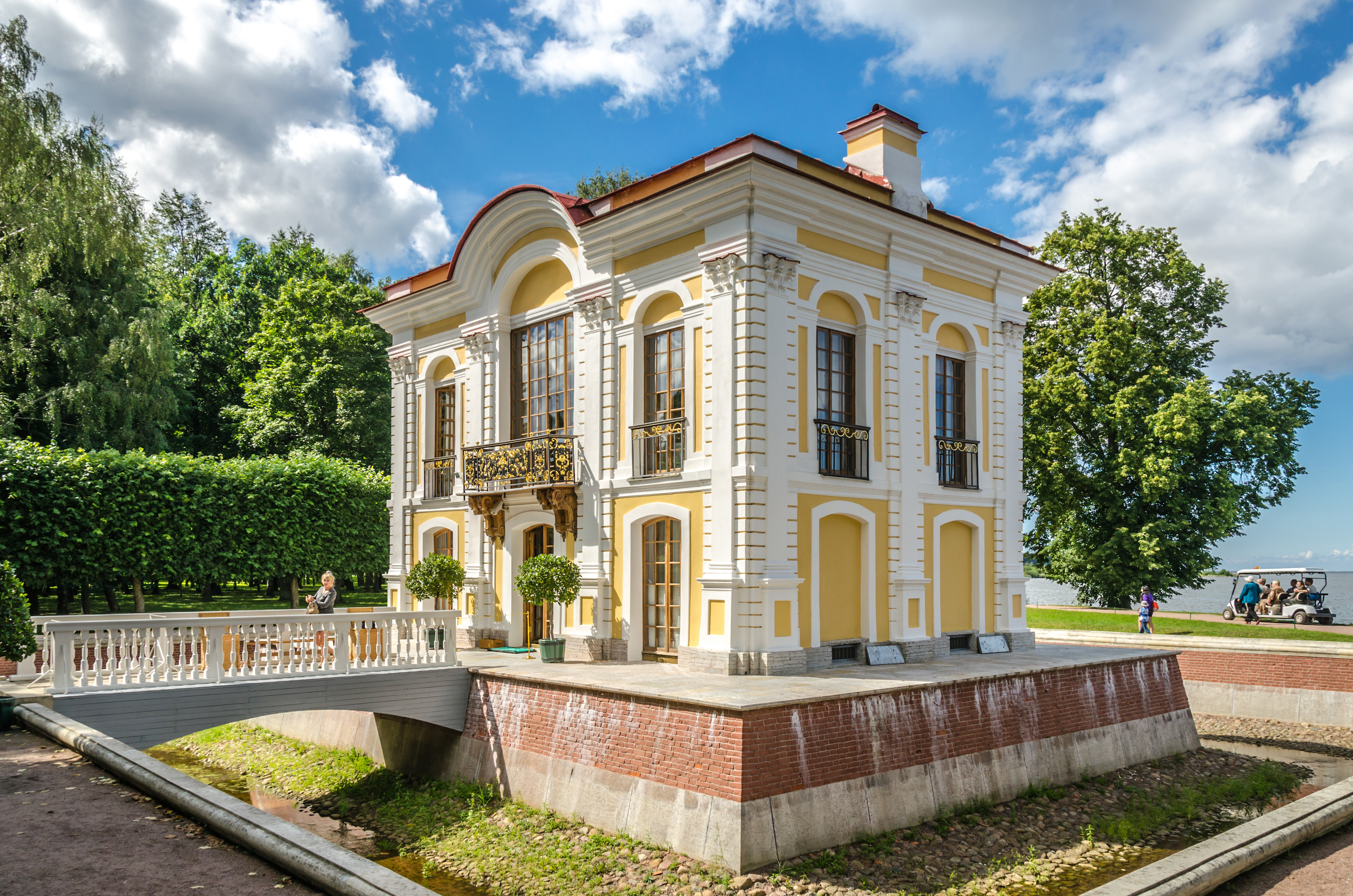 Hermitage pavilion in the Lower Park of Peterhof